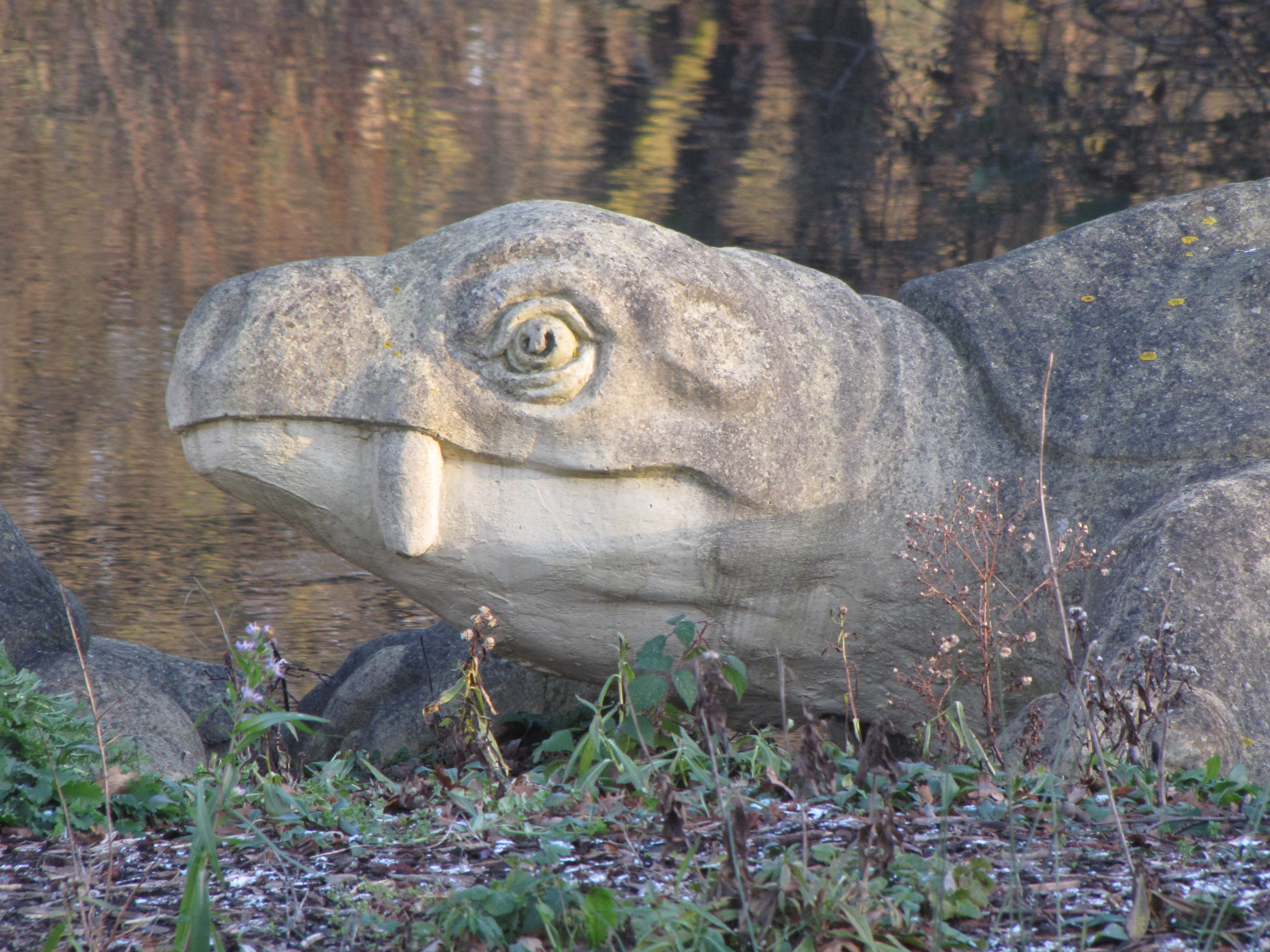 Land of the lost: Crystal Palace